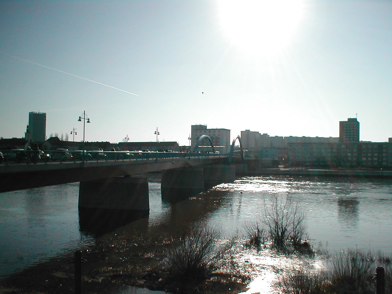 Frankfurt, Oder bridge over Oder river, view from Słubice, Poland by User:Jorges